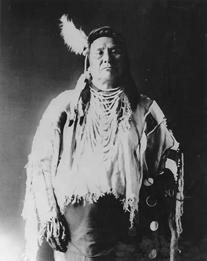 Nez Perce Chief Joseph in buckskin shirt, 1897